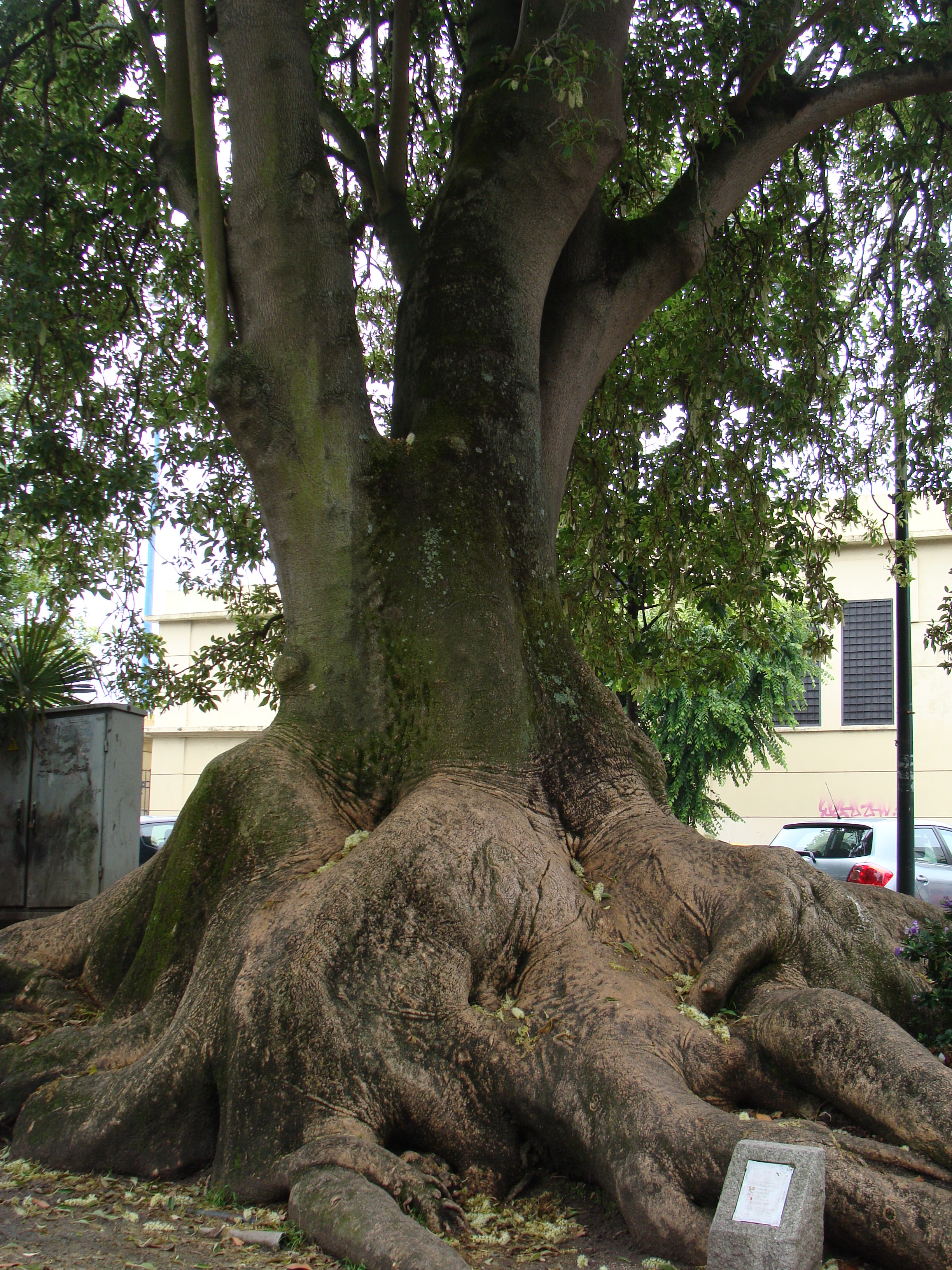 Phytolacca dioica (Umbu tree) in Méndez Núñez Gardens, A Coruña, Galicia, Spain.